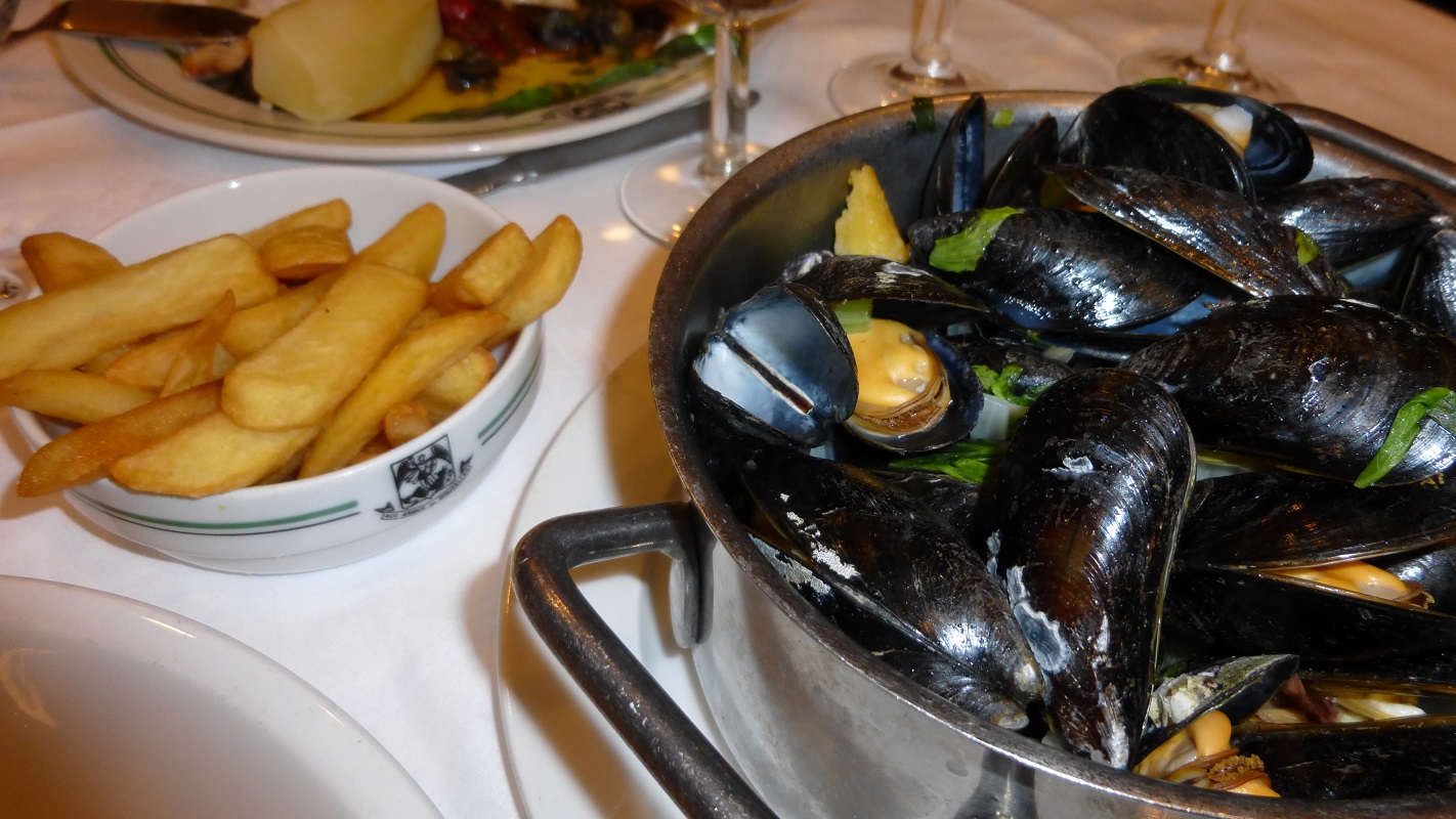 Moules-frites dish in Brussels